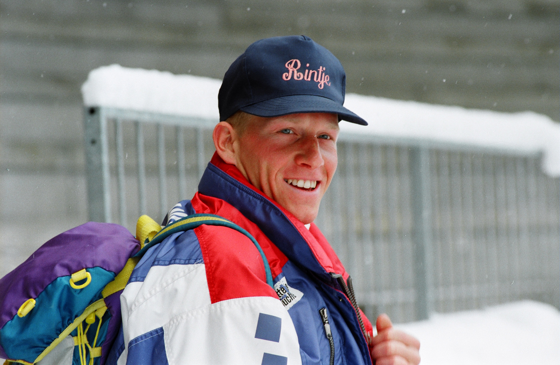 Rintje Ritsma is a former Dutch speedskater